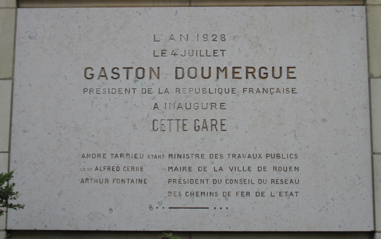 Rouen railway station, August 2009